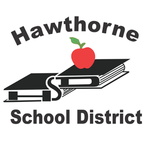 Hawthorne School District Symbol